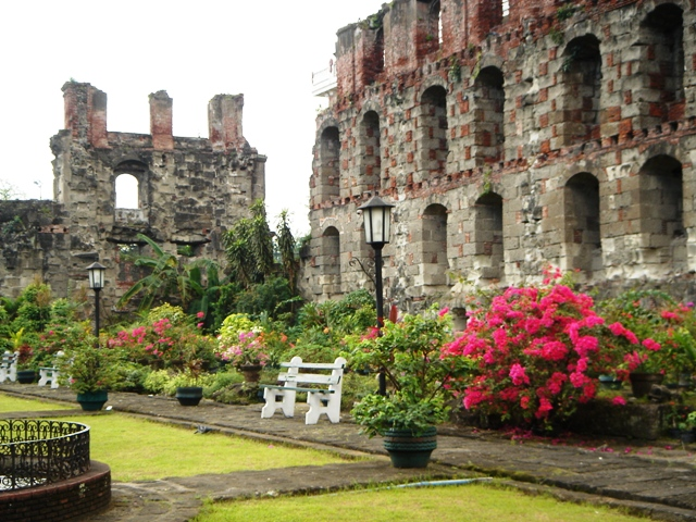 San Augustin Church's Botanic Garden in Manila By Shoestring in Feb. 2006 Was in category Manila on wikivoyage